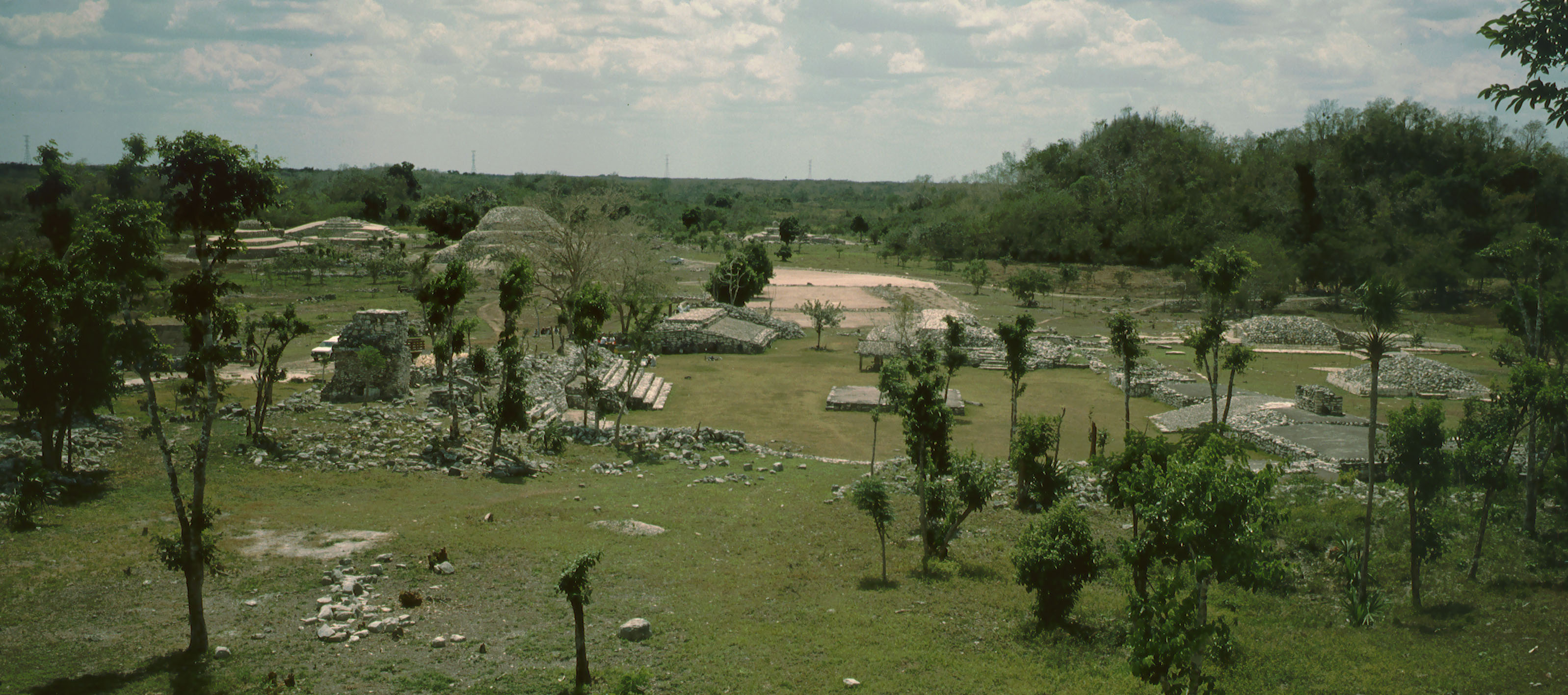 Yaxuná, Yucatan, Mexico.